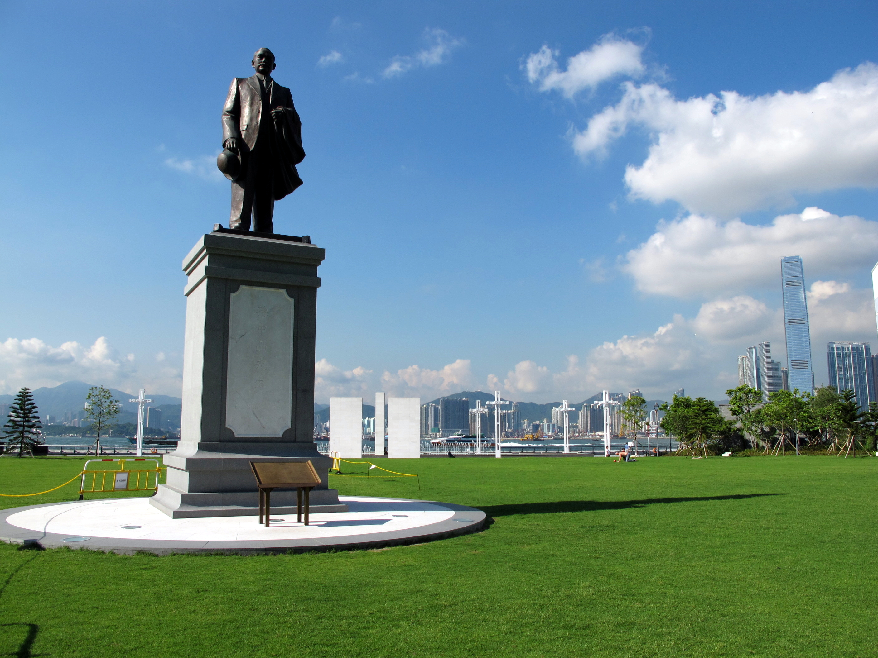 Sun Yat Sen Memorial Park Sun Yat Sen Memorial Park Memorial Lawn